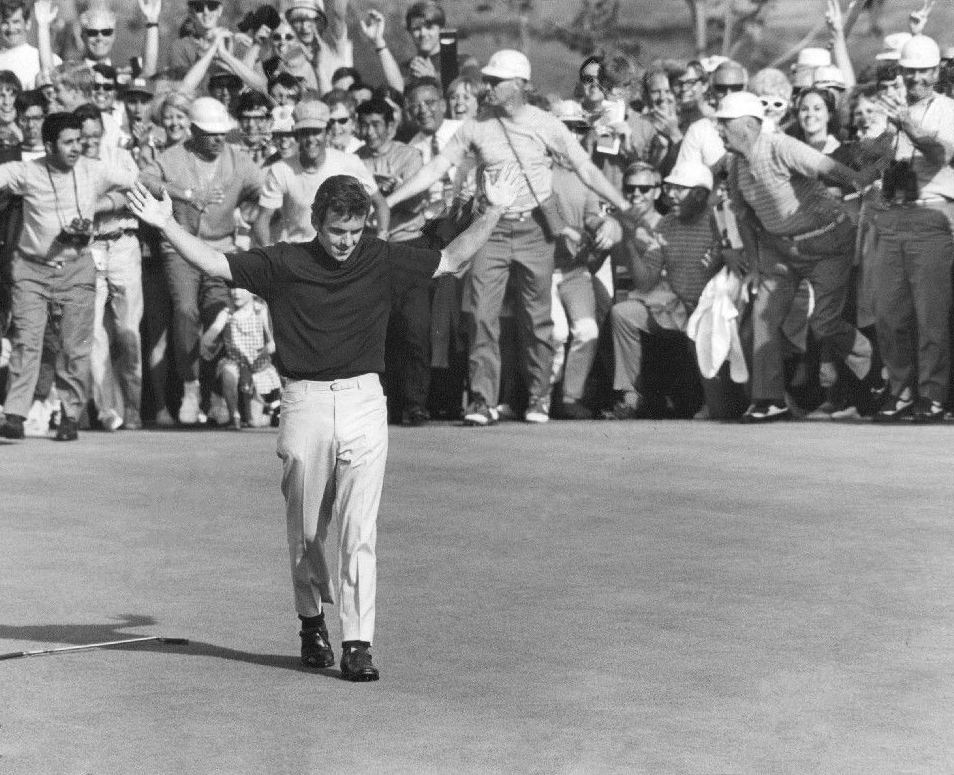 1970 US Open Golf Champion Tony Jacklin Press Photo